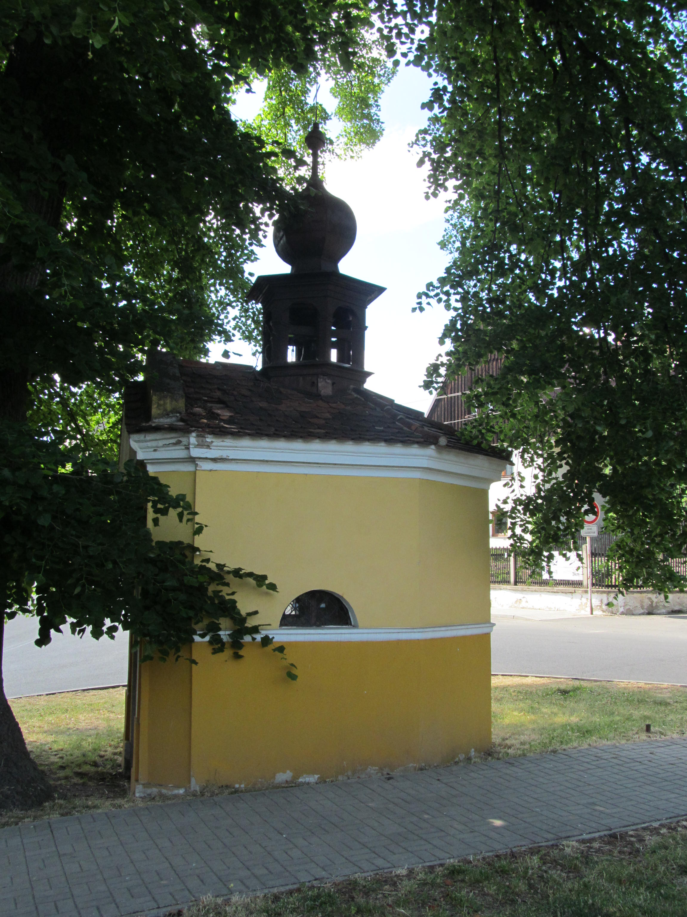 Chapel in Bystřany